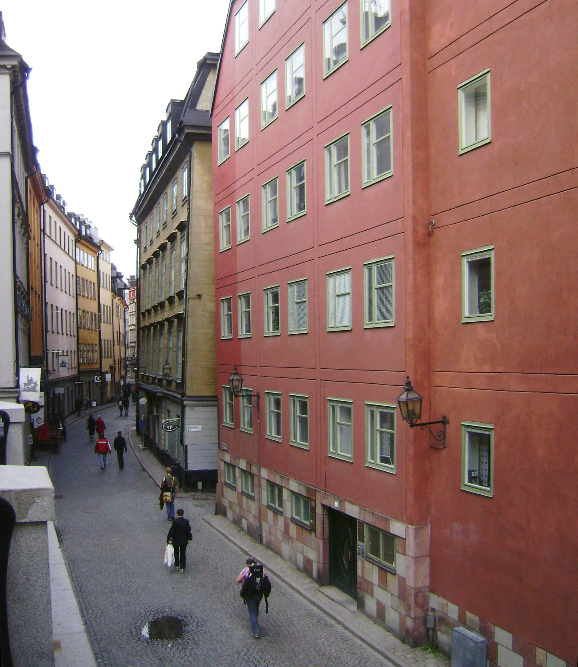 Sweden. Stockholm. Gamla stan, Österlånggatan 43, arkitekt Per-Olof Olsson, 1960